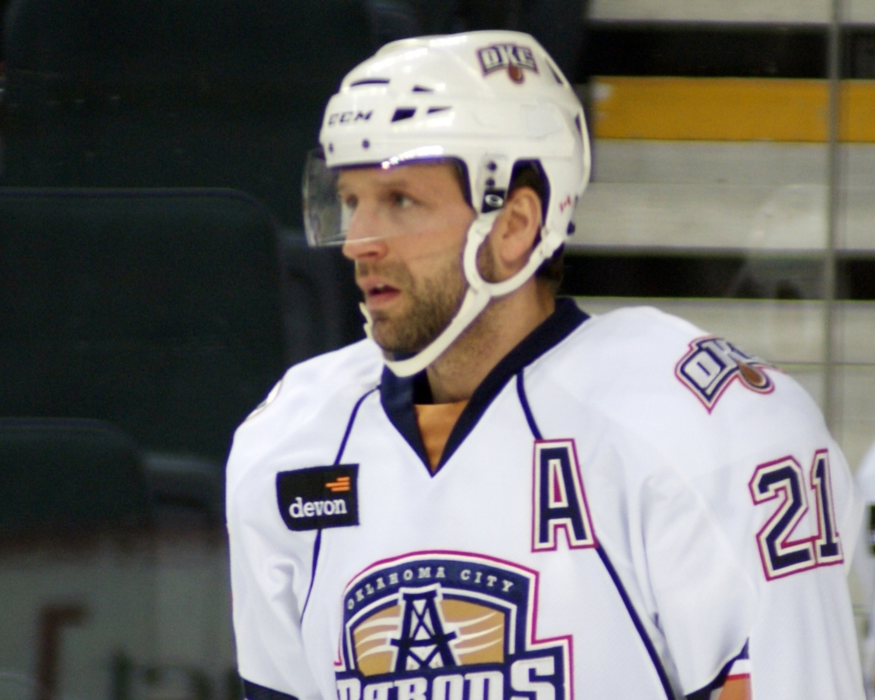 Bryan Helmer, born July 15, 1972 in Sault Ste. Marie, Ontario, is a Canadian professional ice hockey defenceman. He has played in the National Hockey League (NHL) with the Phoenix Coyotes, St. Louis Blues, Vancouver Canucks, and Washington Capitals. Photo was taken on February 18, 2011 during an American Hockey League (AHL) regular season game.